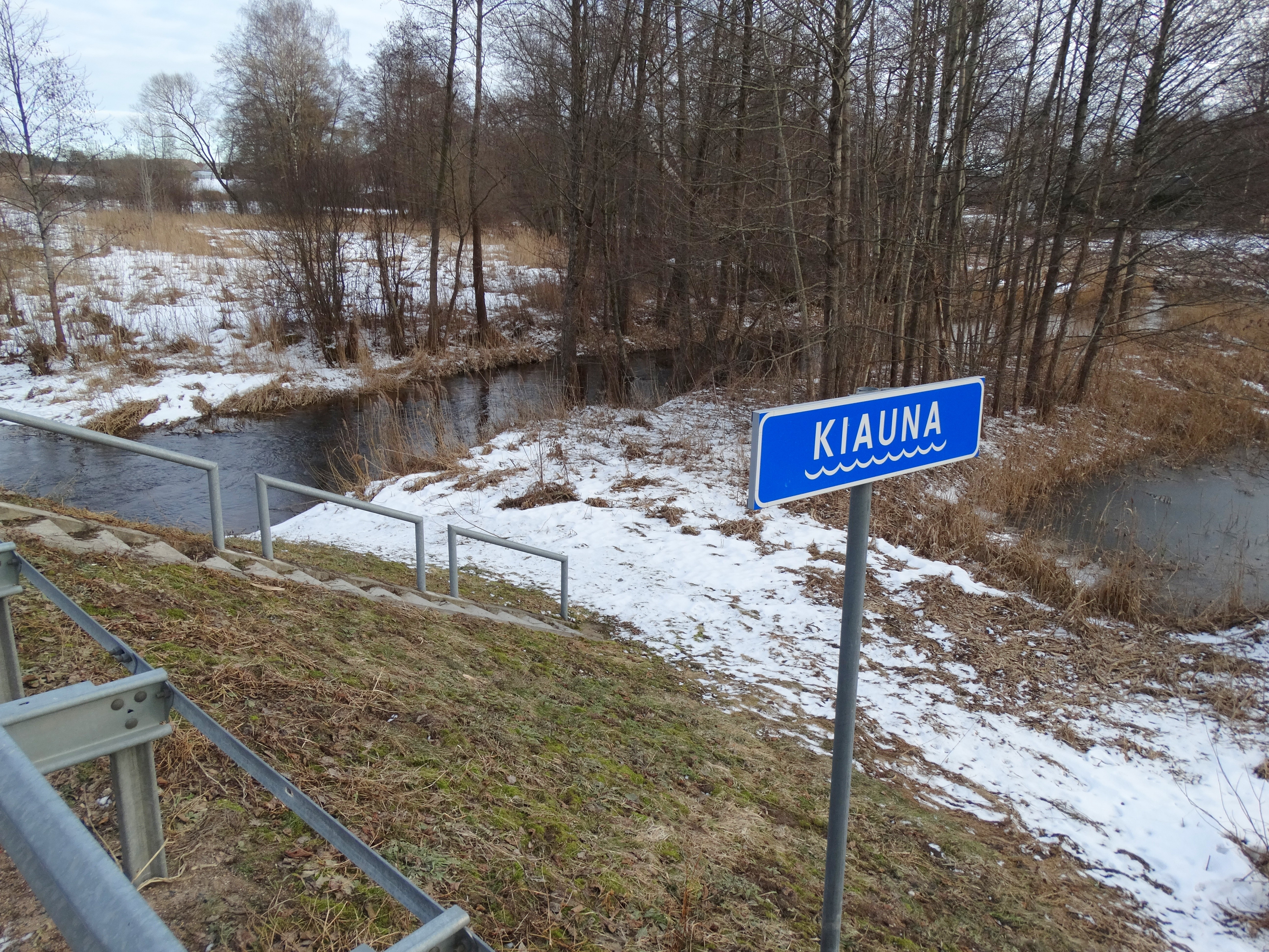 Kūriniai, Švenčionys district, Lithuania